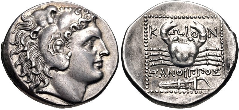 ISLANDS off CARIA, Kos. Circa 285-258 BC. AR Tetradrachm (28mm, 14.85 g, 12h). Xanthippos, magistrate. Head of Herakles right, wearing lion skin / Crab; K-ΩIO-N across upper field, XANΘIΠΠOΣ and bow-in-bow case below; all within dotted square border.